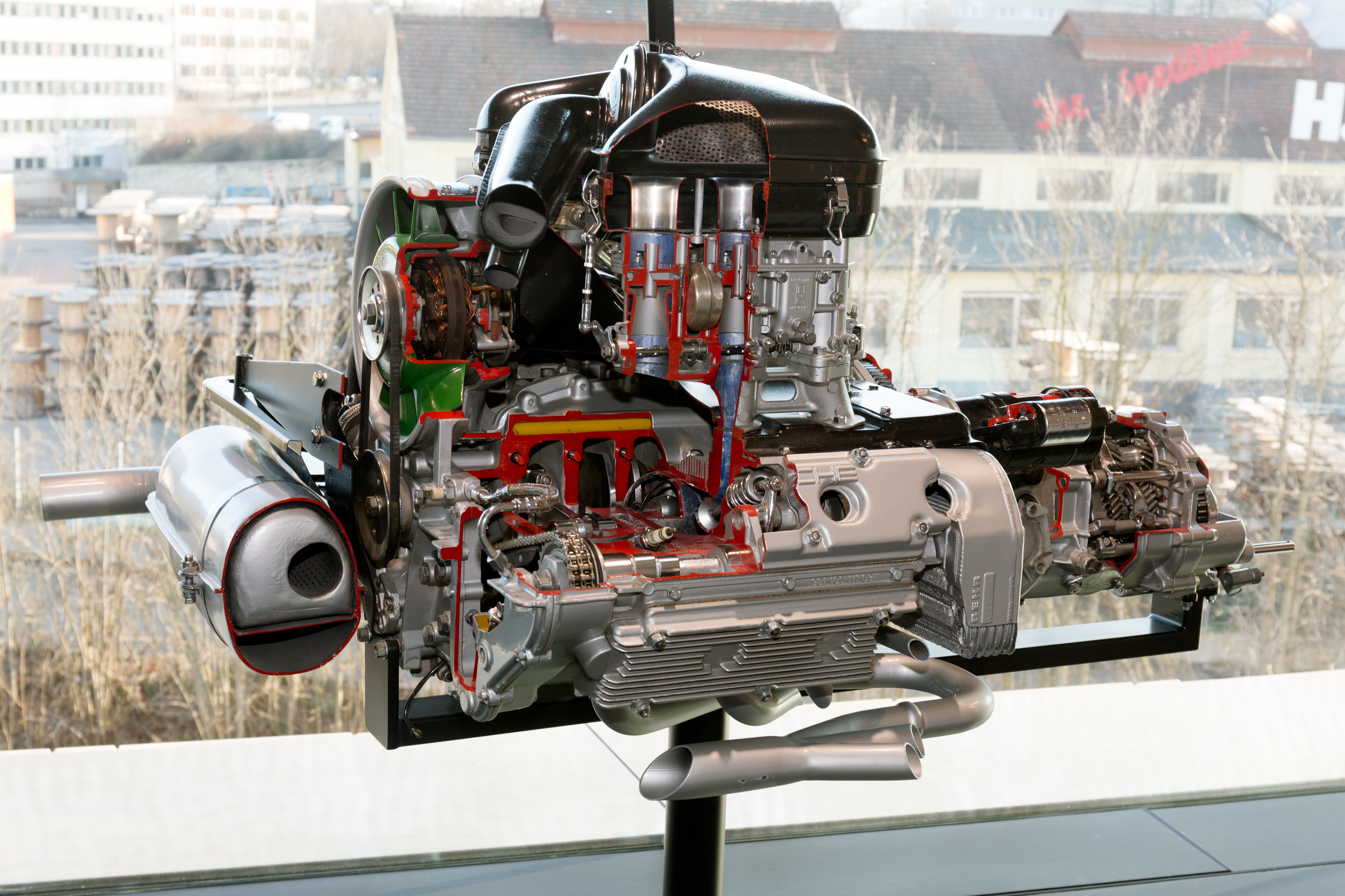 1963 Porsche Typ 901/01 engine